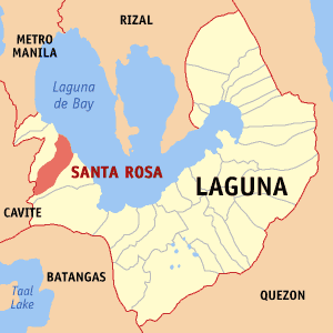 Locator map of Santa Rosa in Laguna, Philippines.